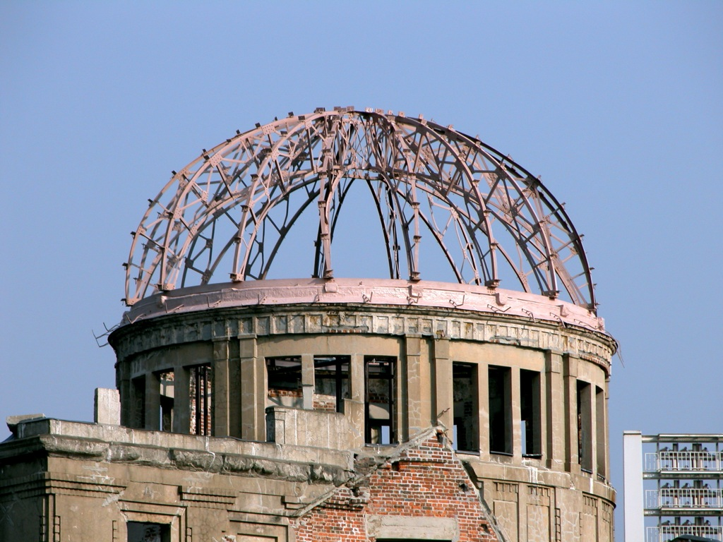 This is a picture of a dome.